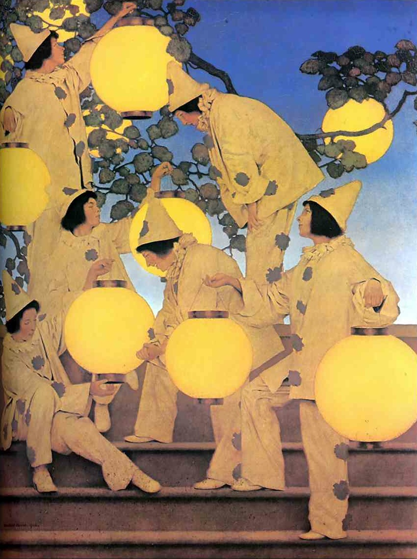 "The Lantern-Bearers" (1908) by Maxfield Parrish, appeared as magazine frontispiece in 1910.